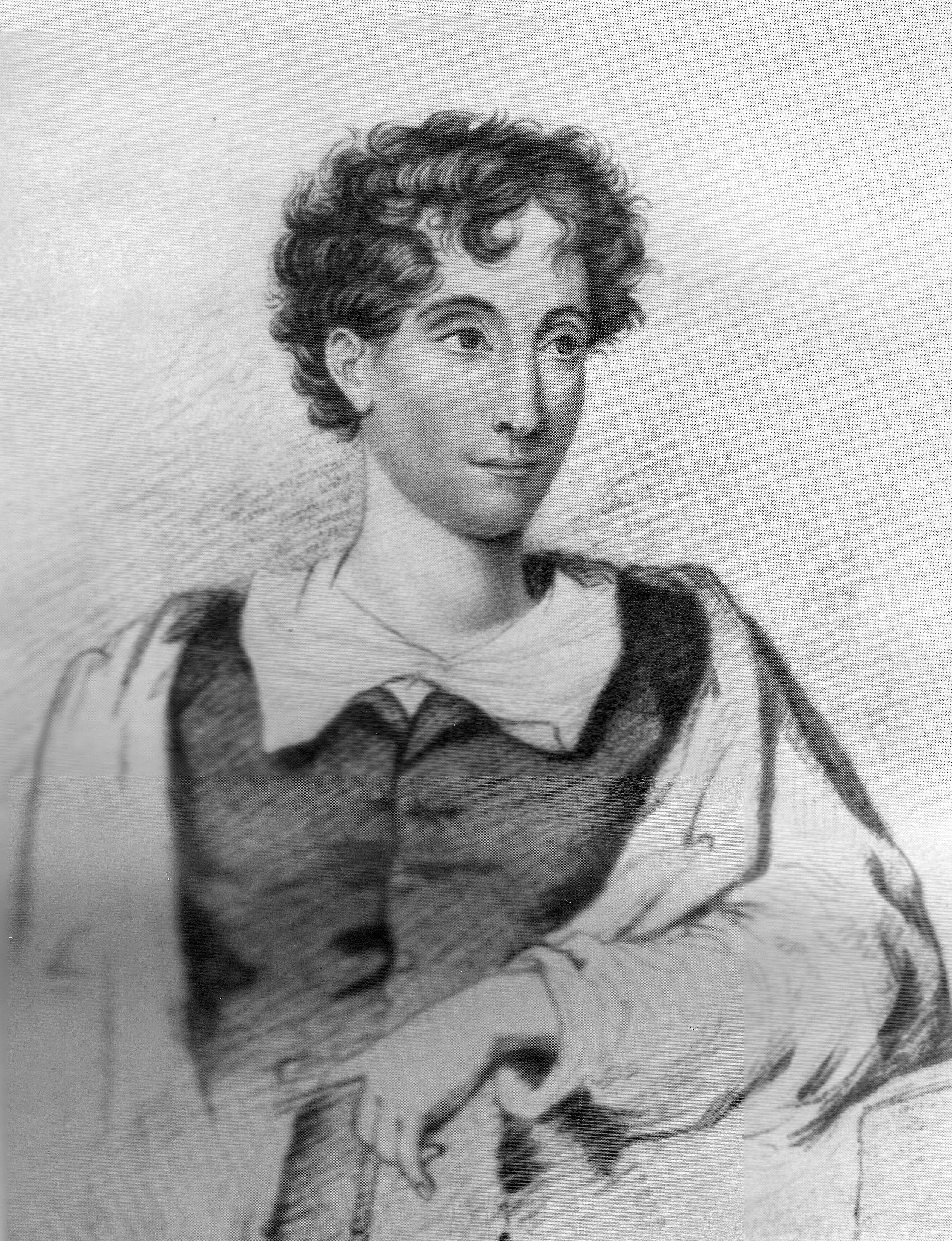 Portrait of Charles Robert Maturin (1782-1824), English Gothic novelist.